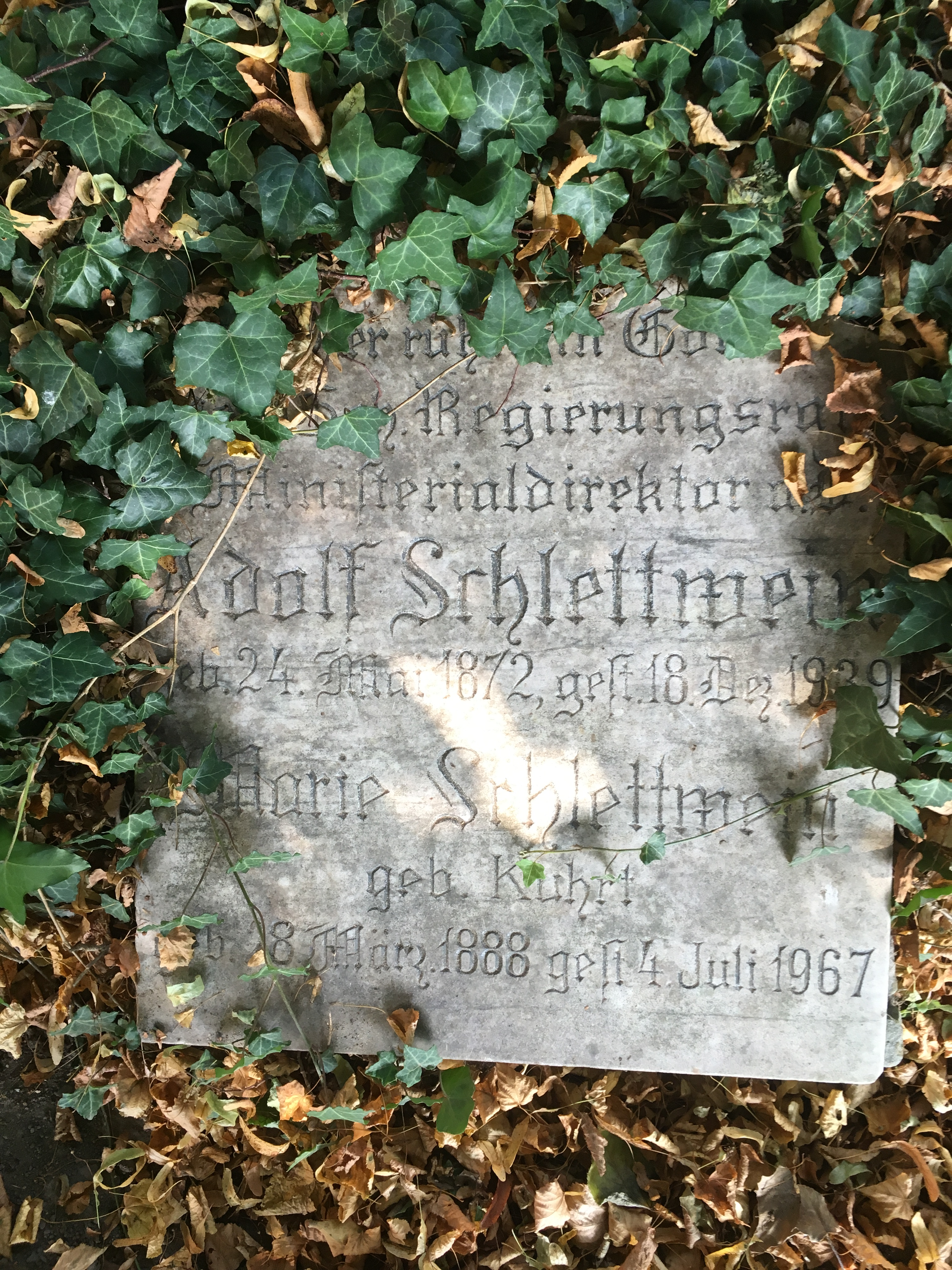 Burial of the Schlettwein family on the churchyard of the church in Petschow.